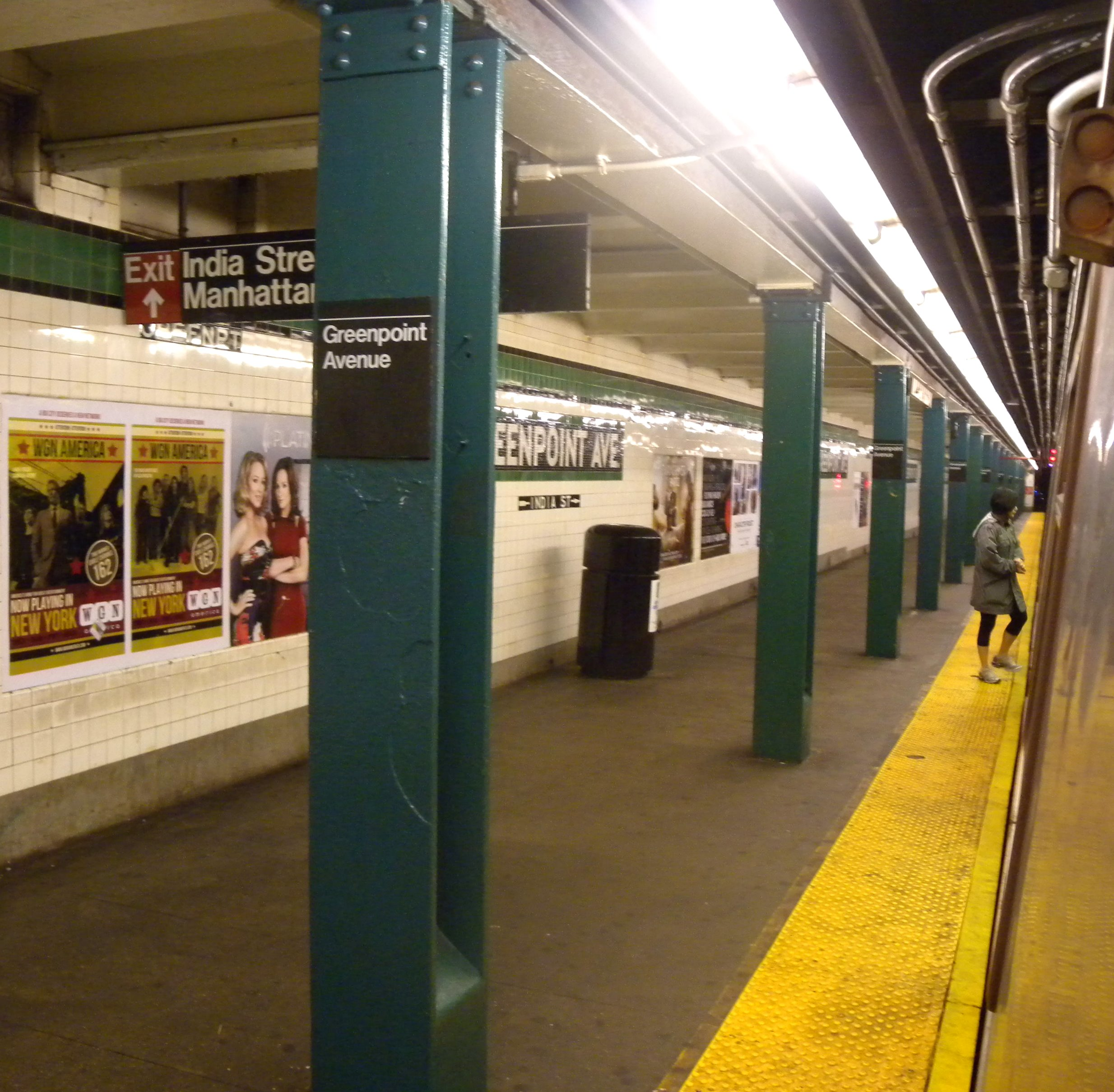 Looking north from southbound G at Greenpoint Avenue platform and tiles.